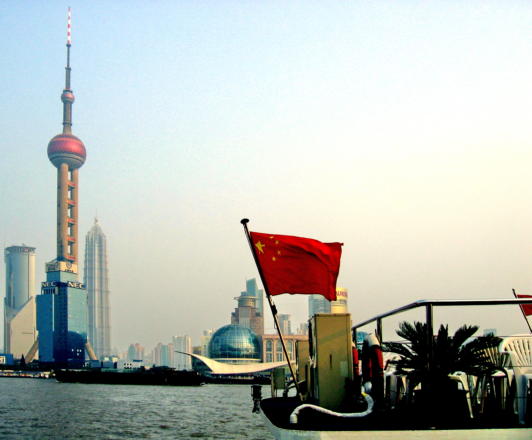 Shanghai.